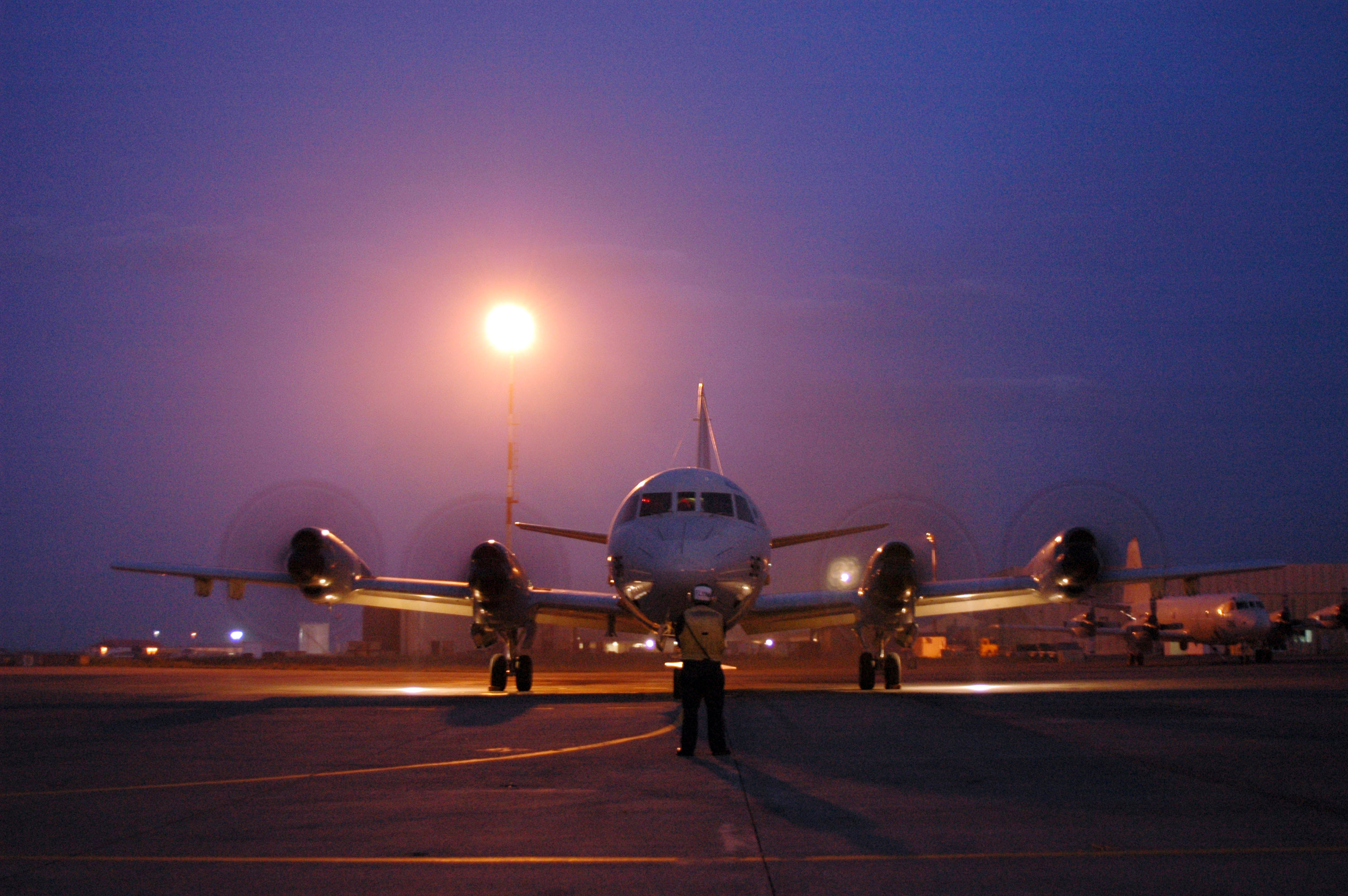 Sigonella, Sicily (April 10, 2006) - Aviation Electrician's Mate 3rd Class Nathaniel Nasarow assigned to the "Tridents" of Patrol Squadron Two Six (VP-26), directs a P-3C Orion during low power turns. VP-26 is currently on a six-month deployment to Sigonella, Sicily in support of maritime patrol operations and the global war on terrorism. U.S. Navy photo by Photographer's Mate 1st Class John Collins (RELEASED)